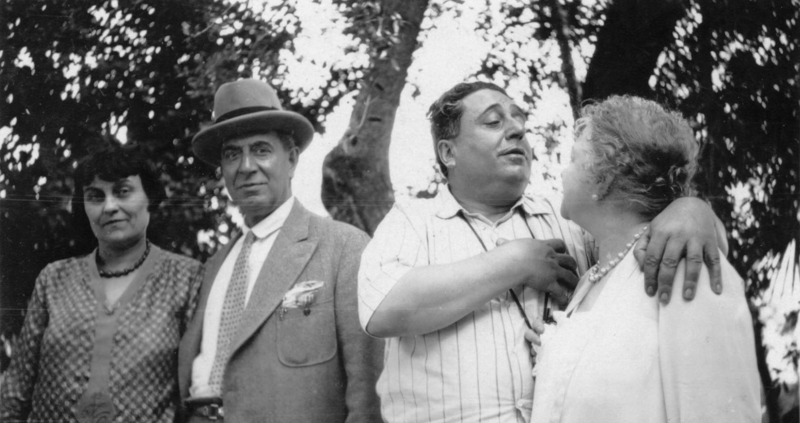 Léonce Perret's photo.